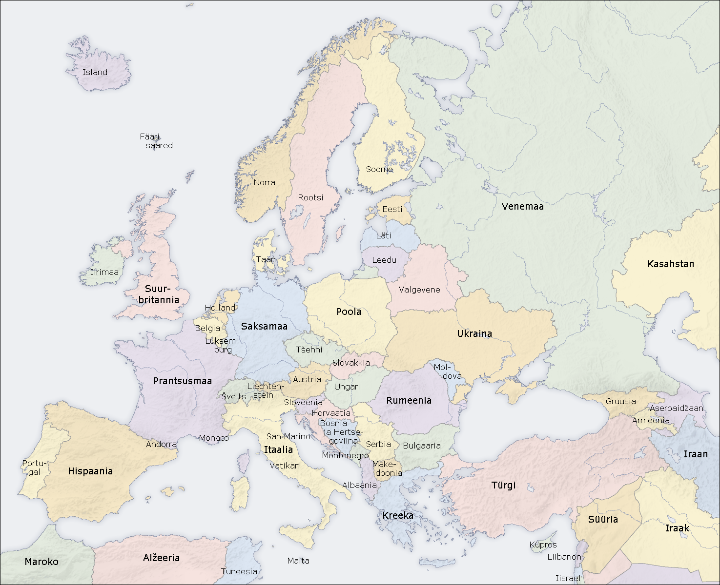 Map of countries in Europe